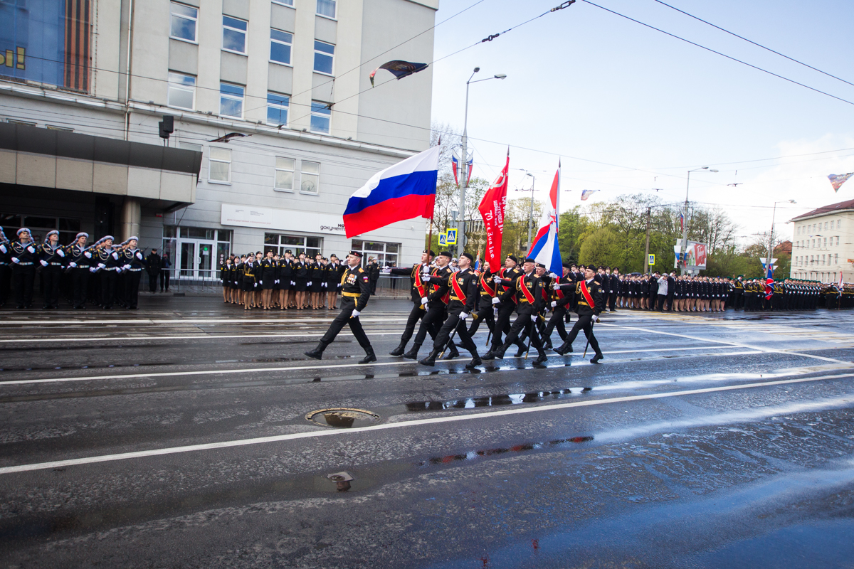 Victory Day in Kaliningrad 2017-05-09